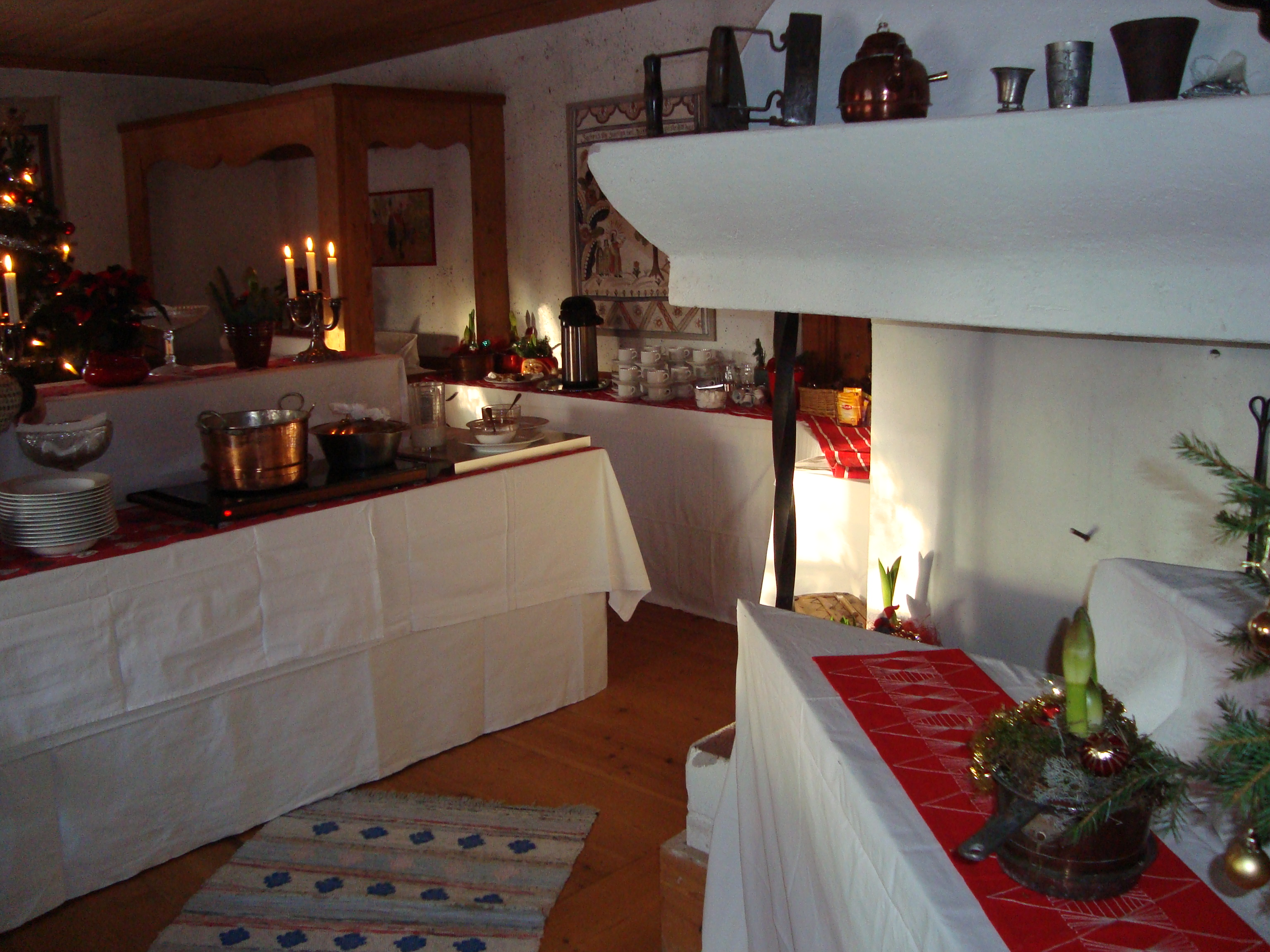 Tolvmansgården, birthplace for Nobel prize awarded author Erik Axel Karlfeldt